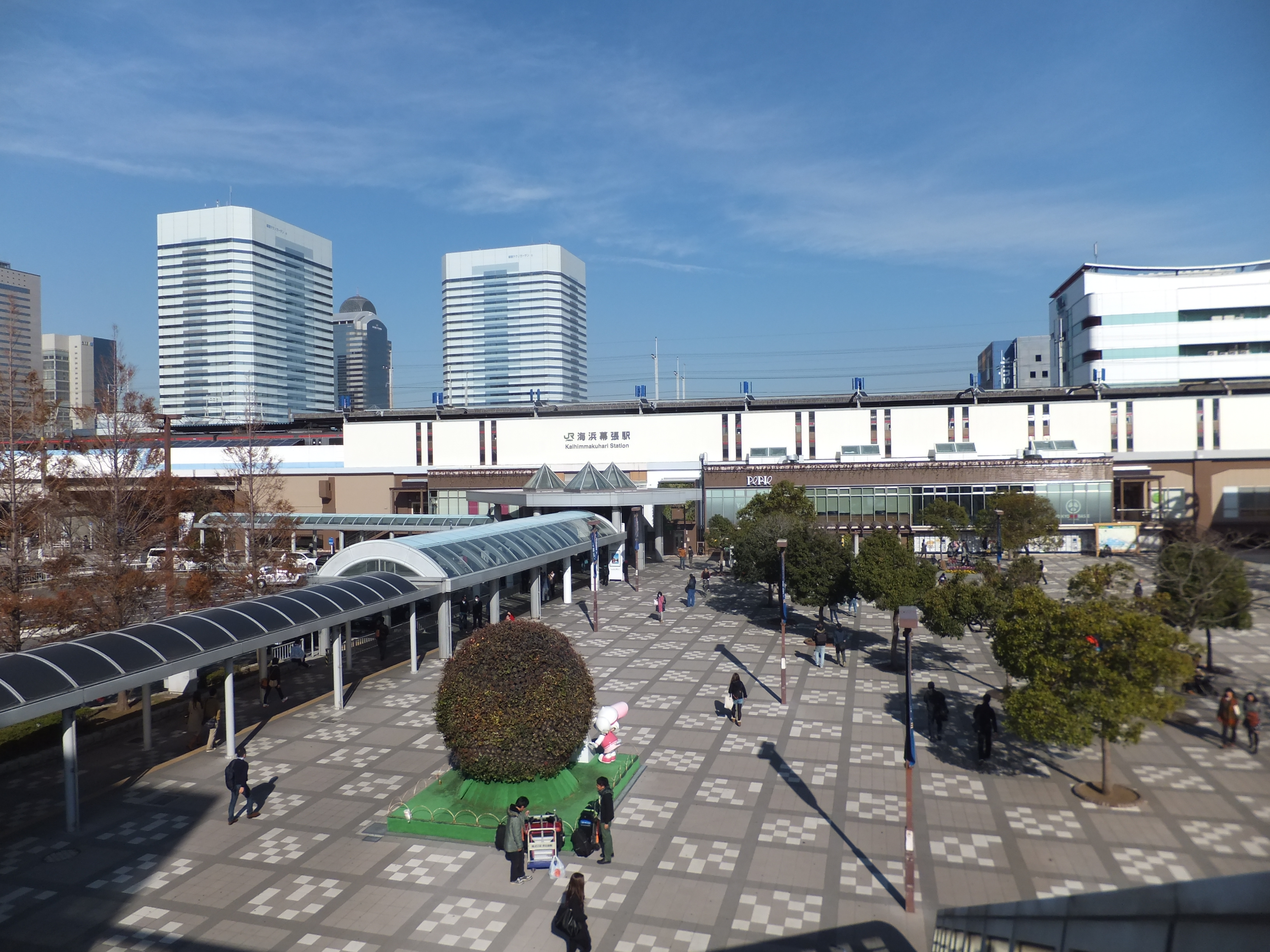 Kaihimmakuhari (Kaihin-Makuhari) Station on the Keiyo Line, Chiba, Japan